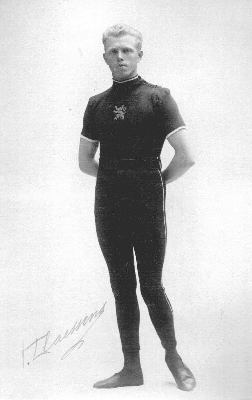 Francois Claessens Belgian Gymnast